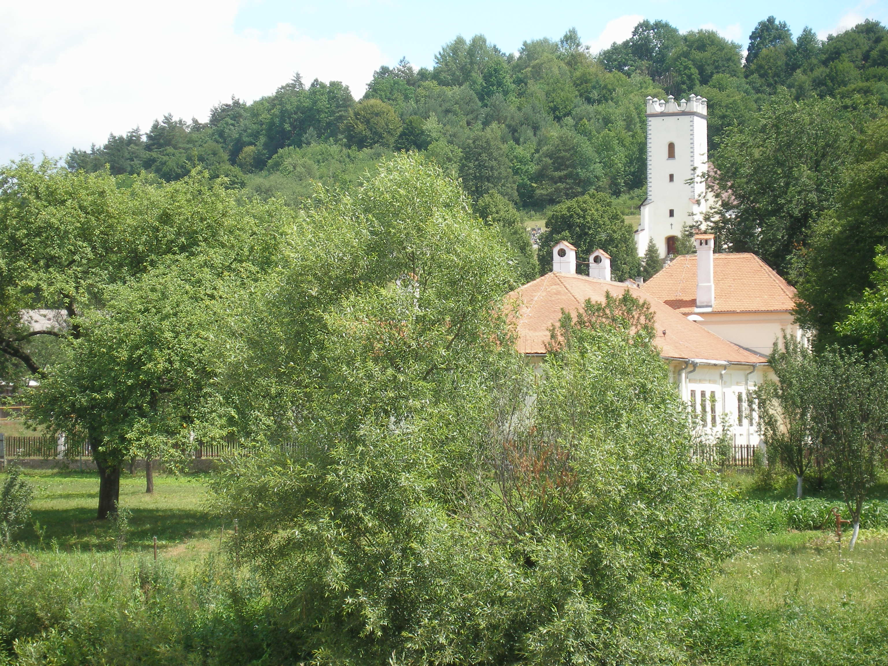 Šarišská vrchovina, obec Radatice v okrese Prešov, región Šariš This medium shows the protected monument with the number 707-343/0 in the Slovak Republic.